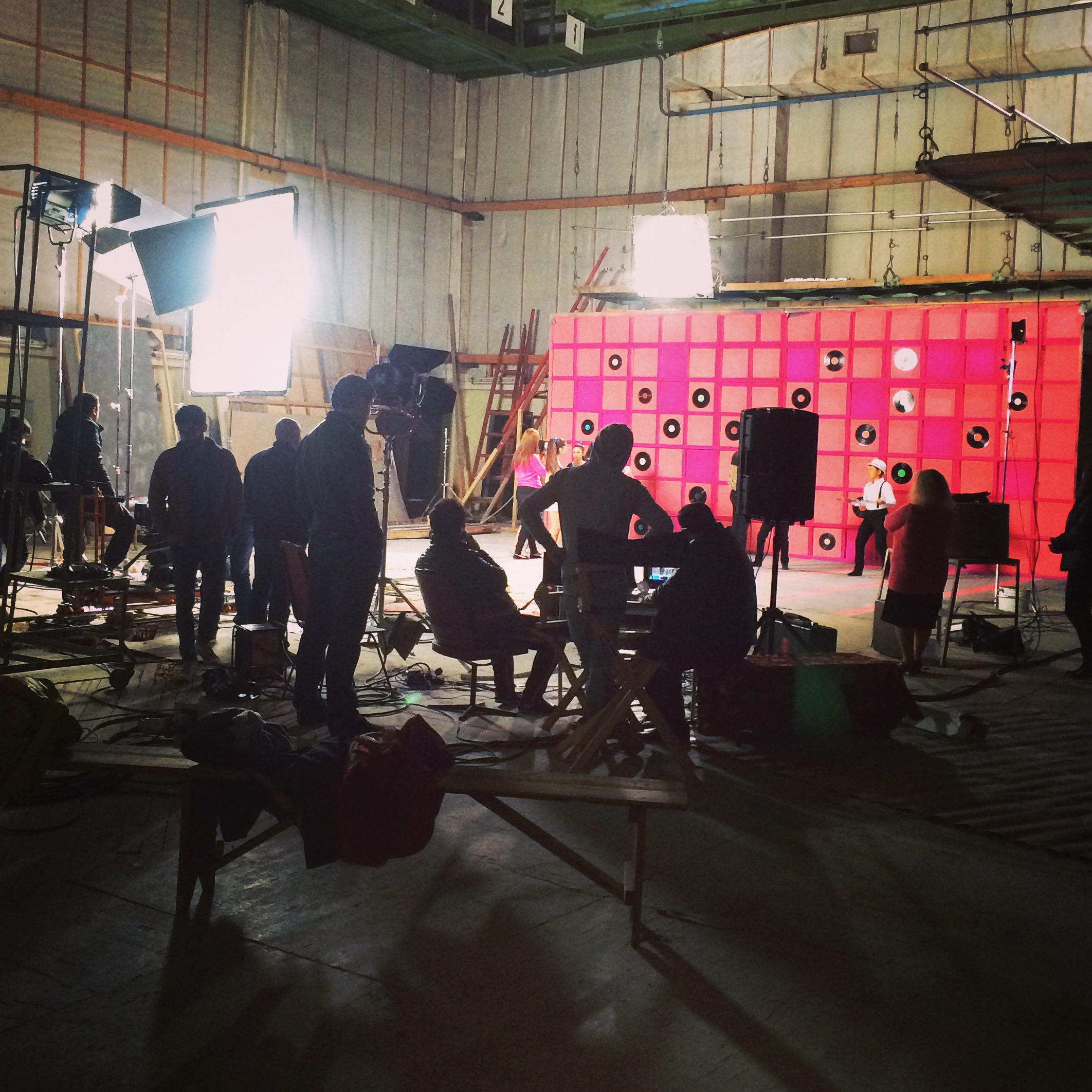 Meloyan Backstage 9